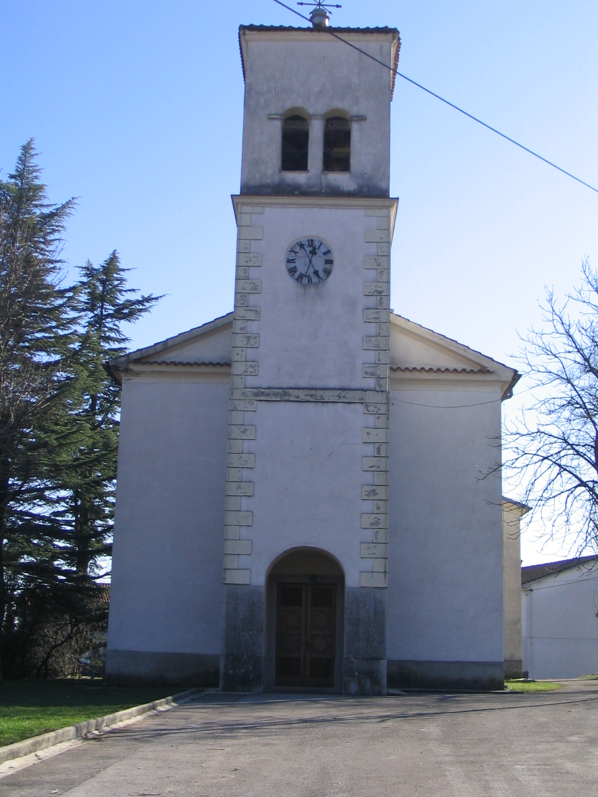 Church in Veli Brgud, Istria, Croatia